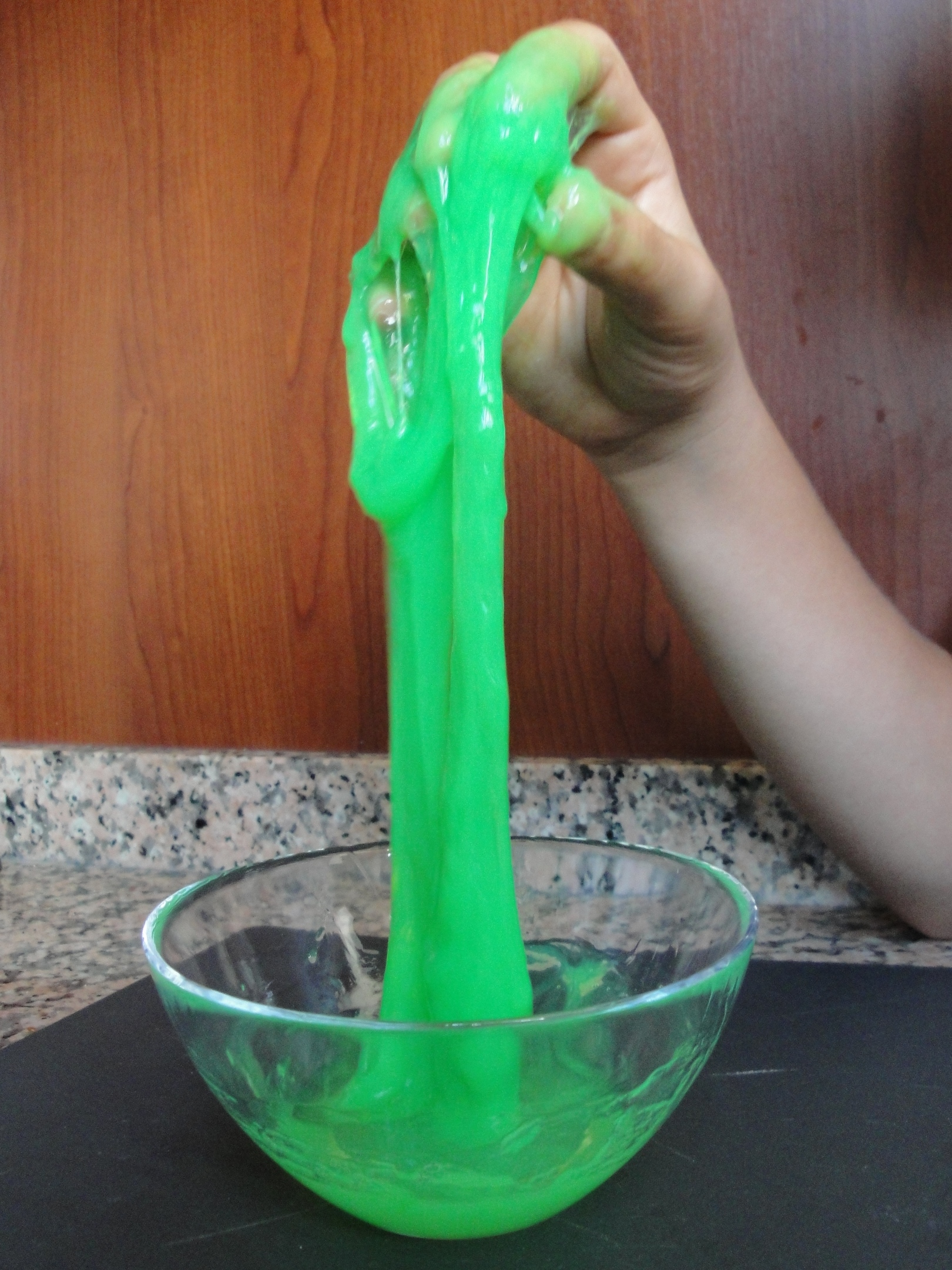 Slime activity. 1 teaspoon full borax, 50ml water based school glue, 200ml water, water based color. This produces a borax cross-linked poly(vinyl alcohol) gel.